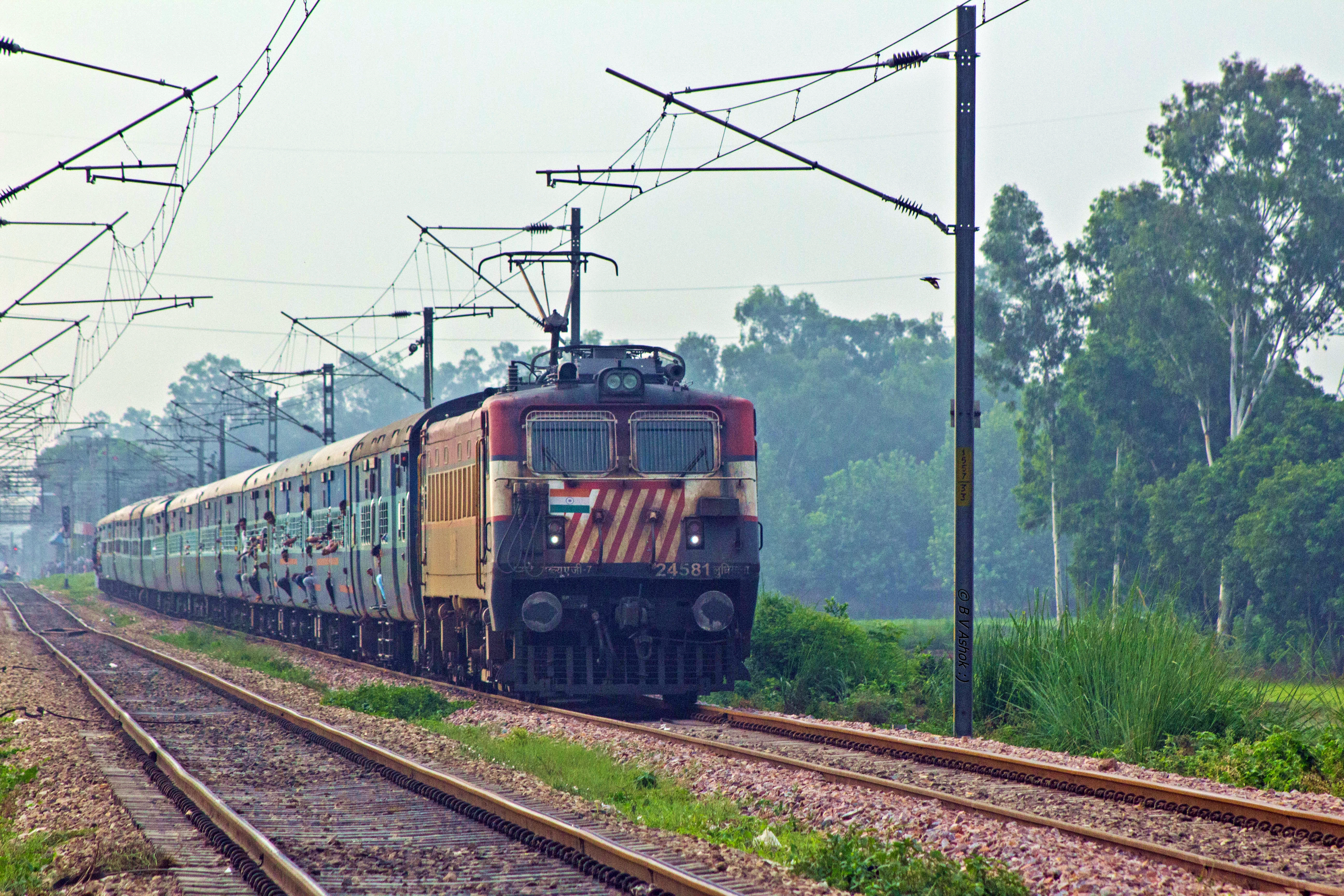 LDH WAG-7 24581 accelerating out of Roorkee with 12231 Lucknow - Chandigarh Superfast Express....